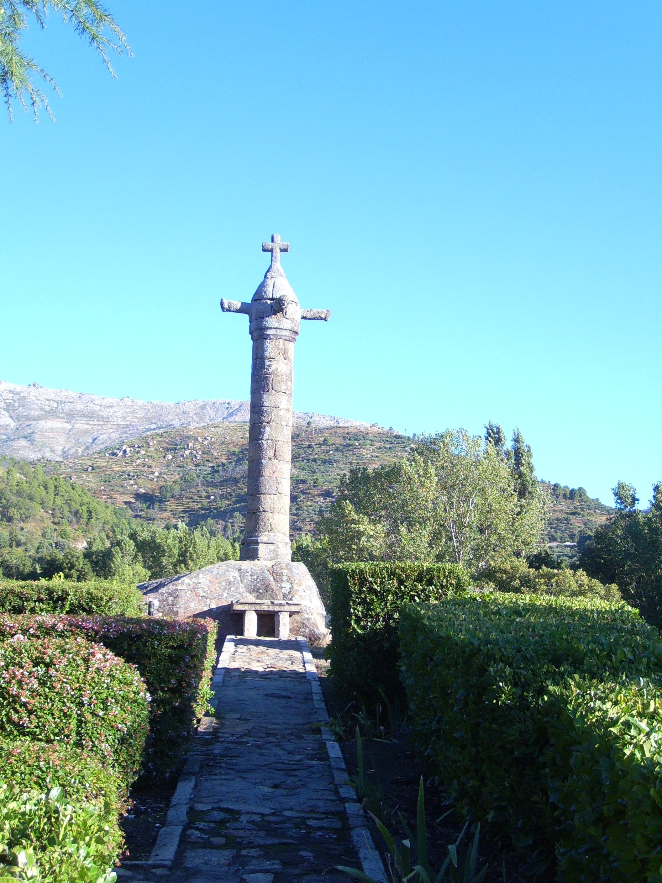 Cross of the Rollo, Mombeltrán (Ávila, Spain)